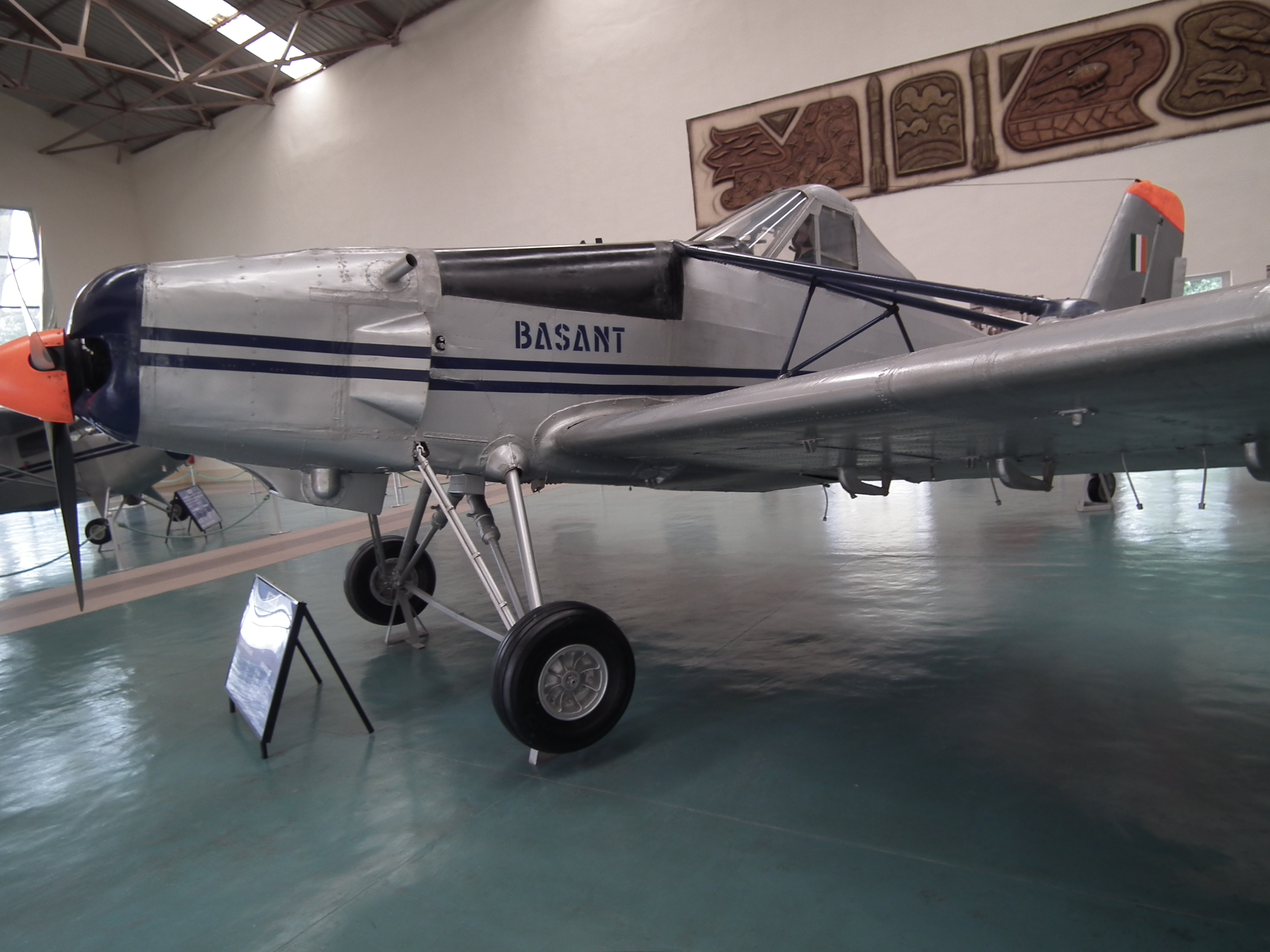 Basant plane displayed at HAL Museum